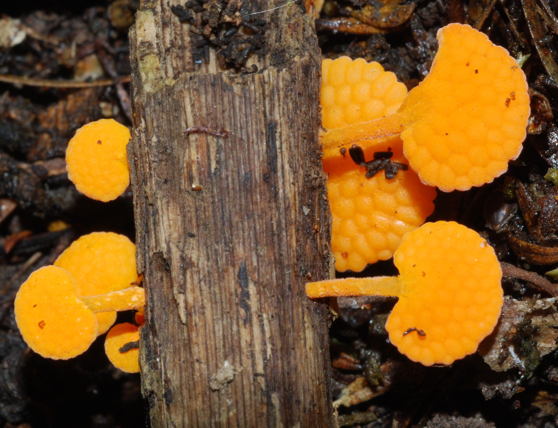 Favolaschia calocera Location: Auckland, New Zealand Notes: Found on fallen branches and logs in native New Zealand forest.